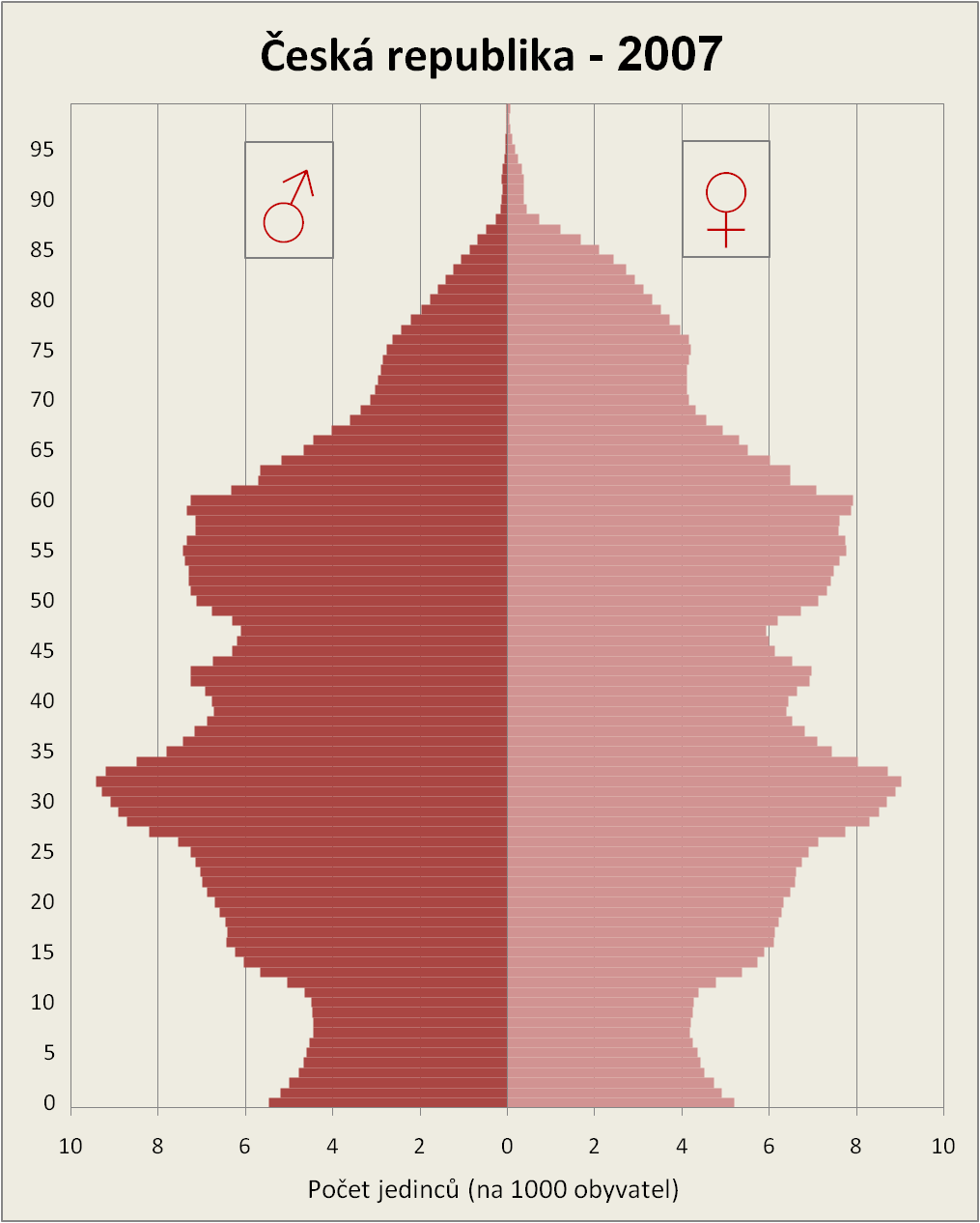 Population pyramid of the Czech Republic in 2007, relativ data